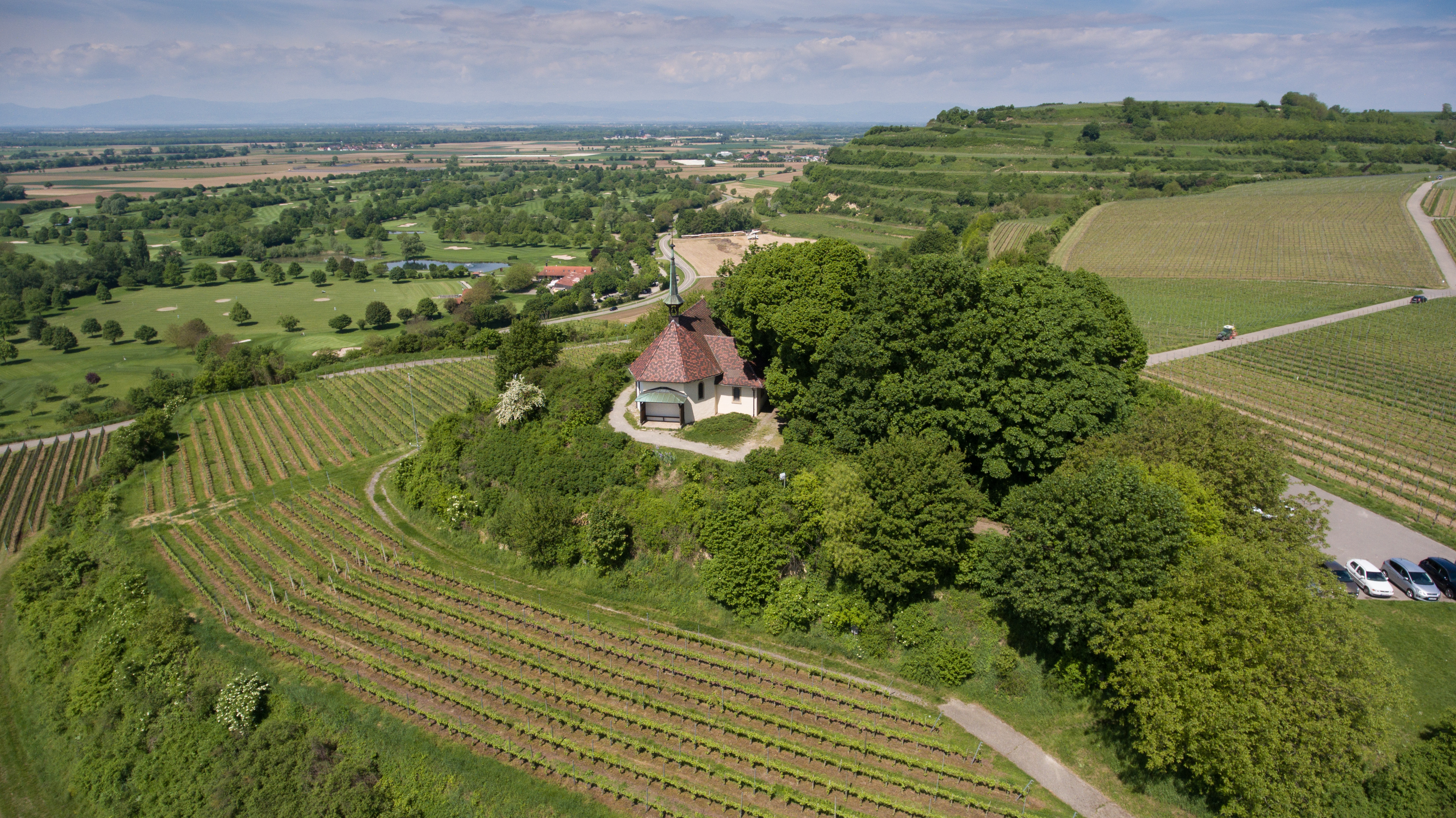 Aerial view Erentrudis chapel above Freiburg-Munzingen